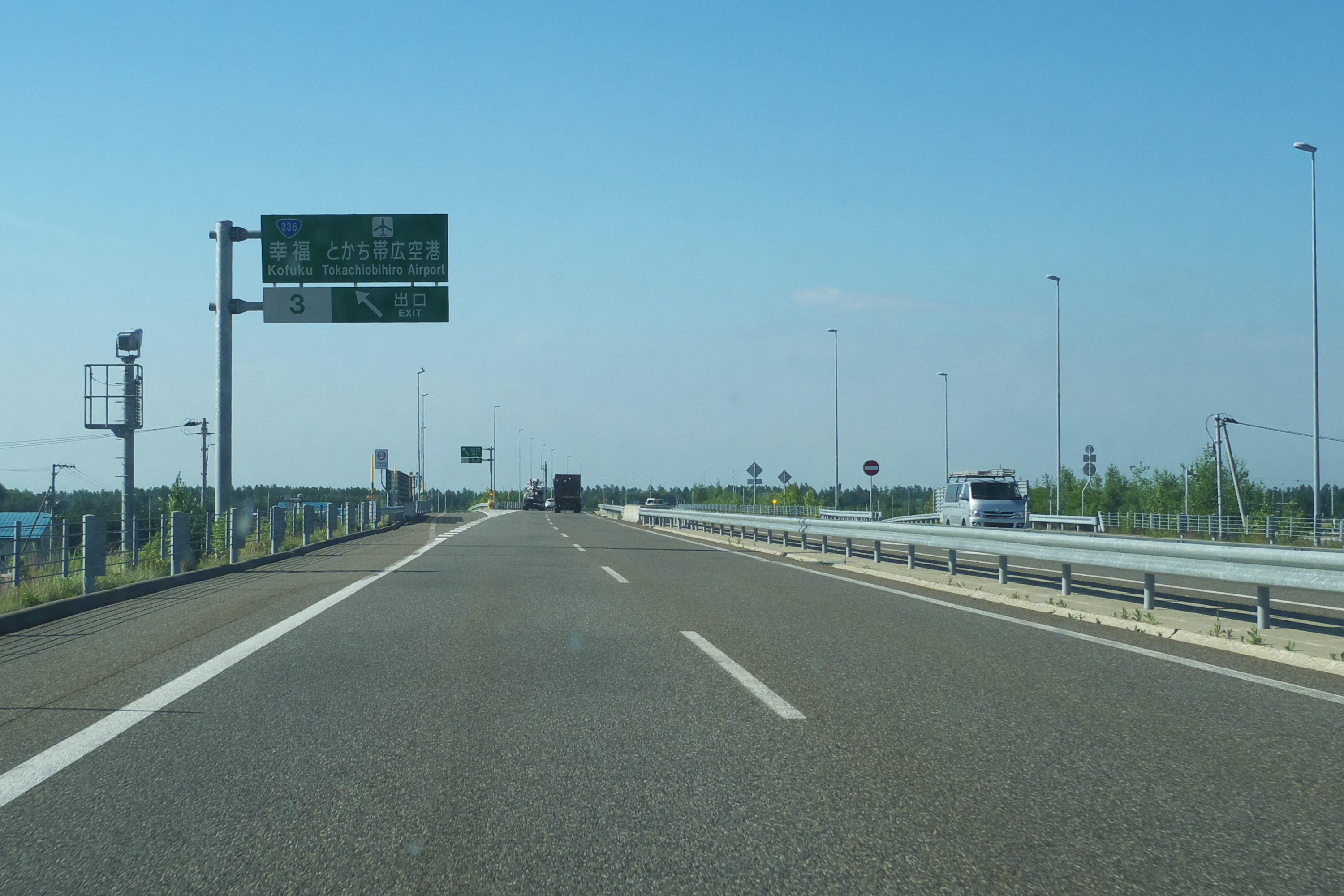 Obihiro-Hiroo Expressway Kofuku Interchange in Obihiro City, Hokkaido, Japan